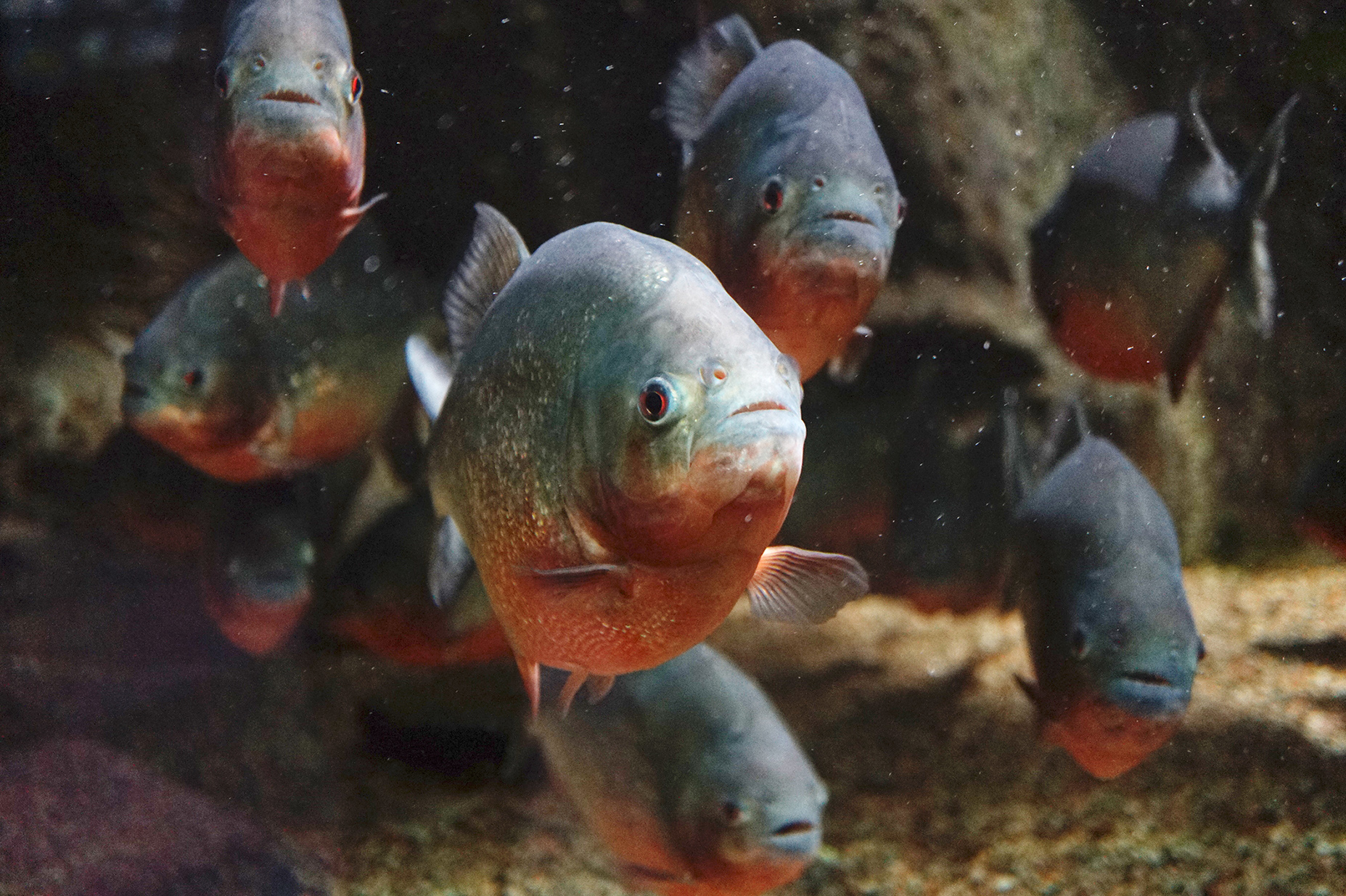 Pygocentrus nattereri in Särkänniemi Aquarium.This photograph was taken with a Sony ILCE-5000